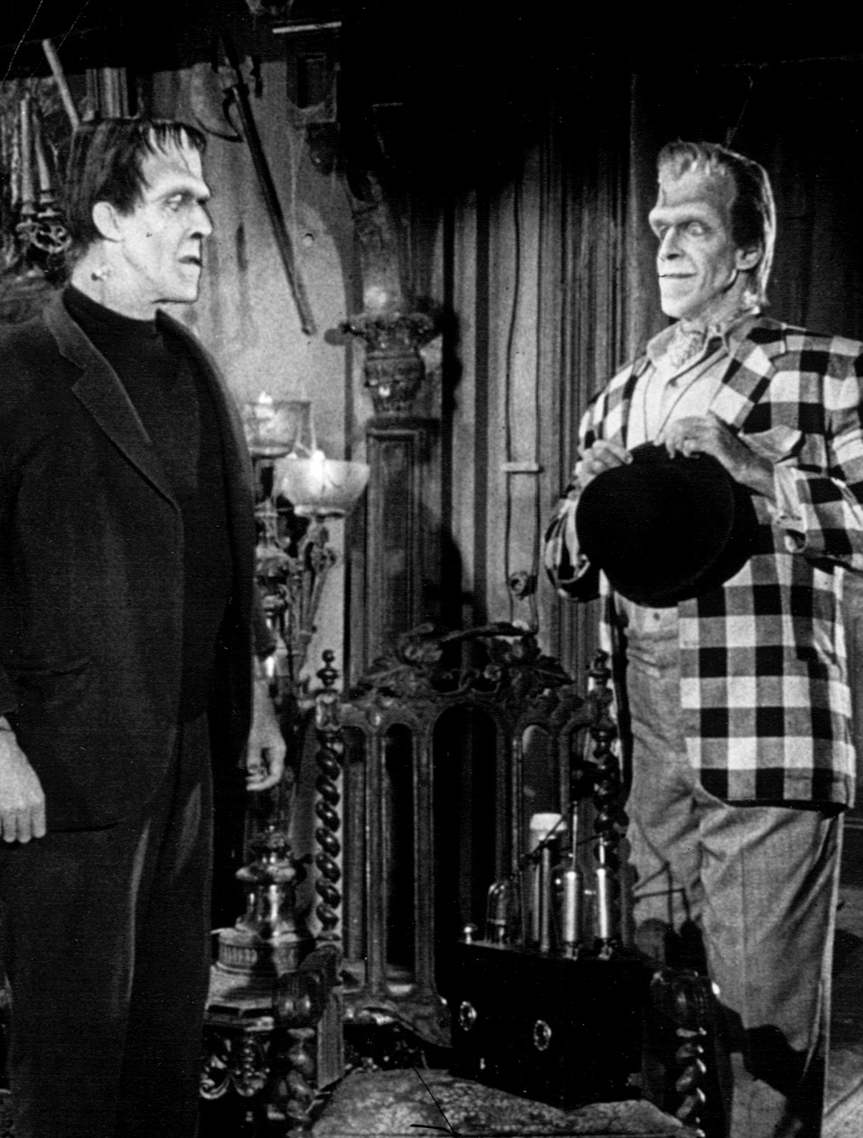 Photo of Fred Gwynne in a dual role as Herman and Charlie Munster. Herman is suspicious when Charlie visits as his brother has a reputation of being a con man. The episode is "Knock Wood, Here Comes Charlie".